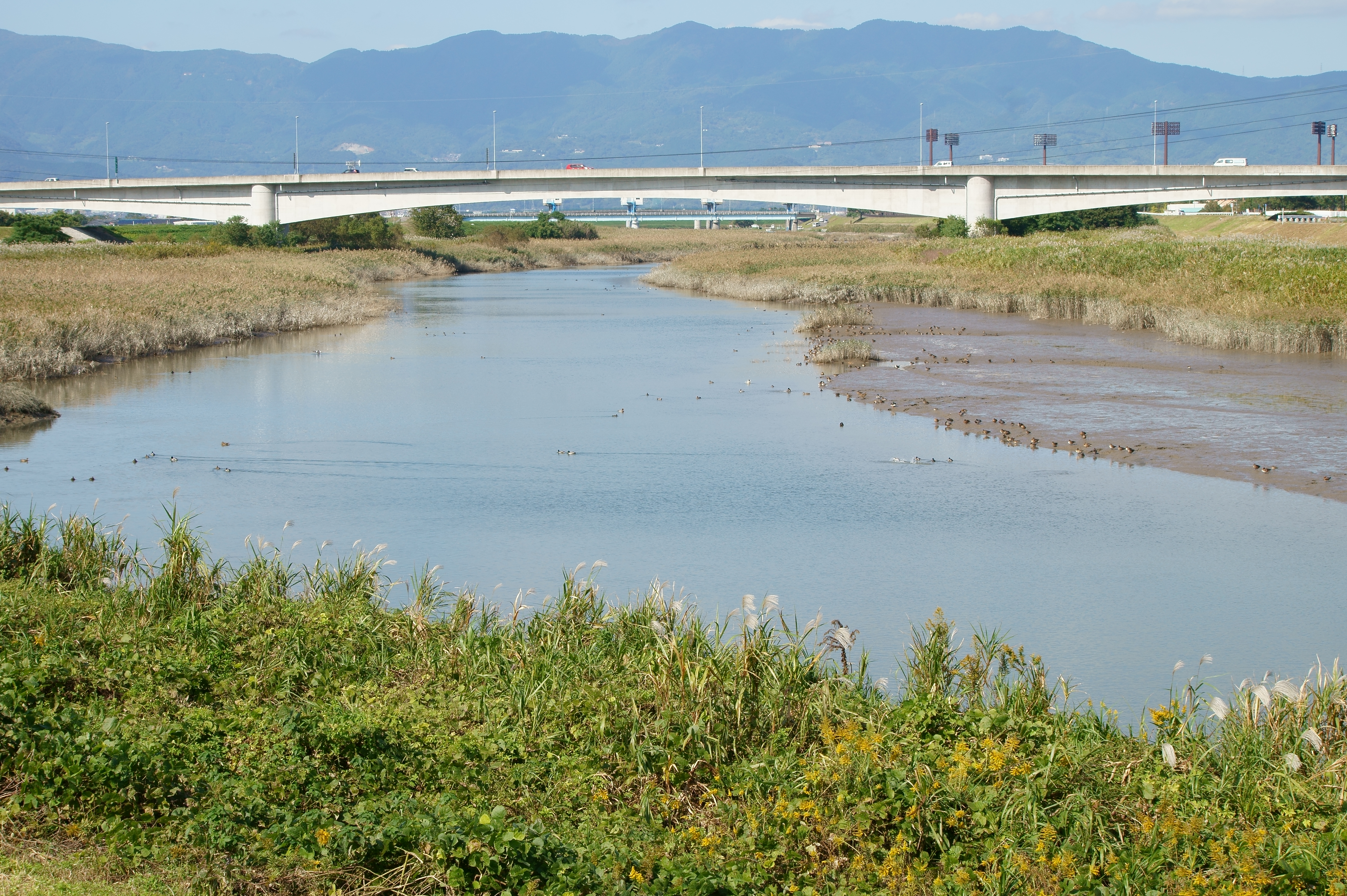 Kase River and ducks, at side of Ariake Kasegawa-Ōhashi Bridge, in Saga city.